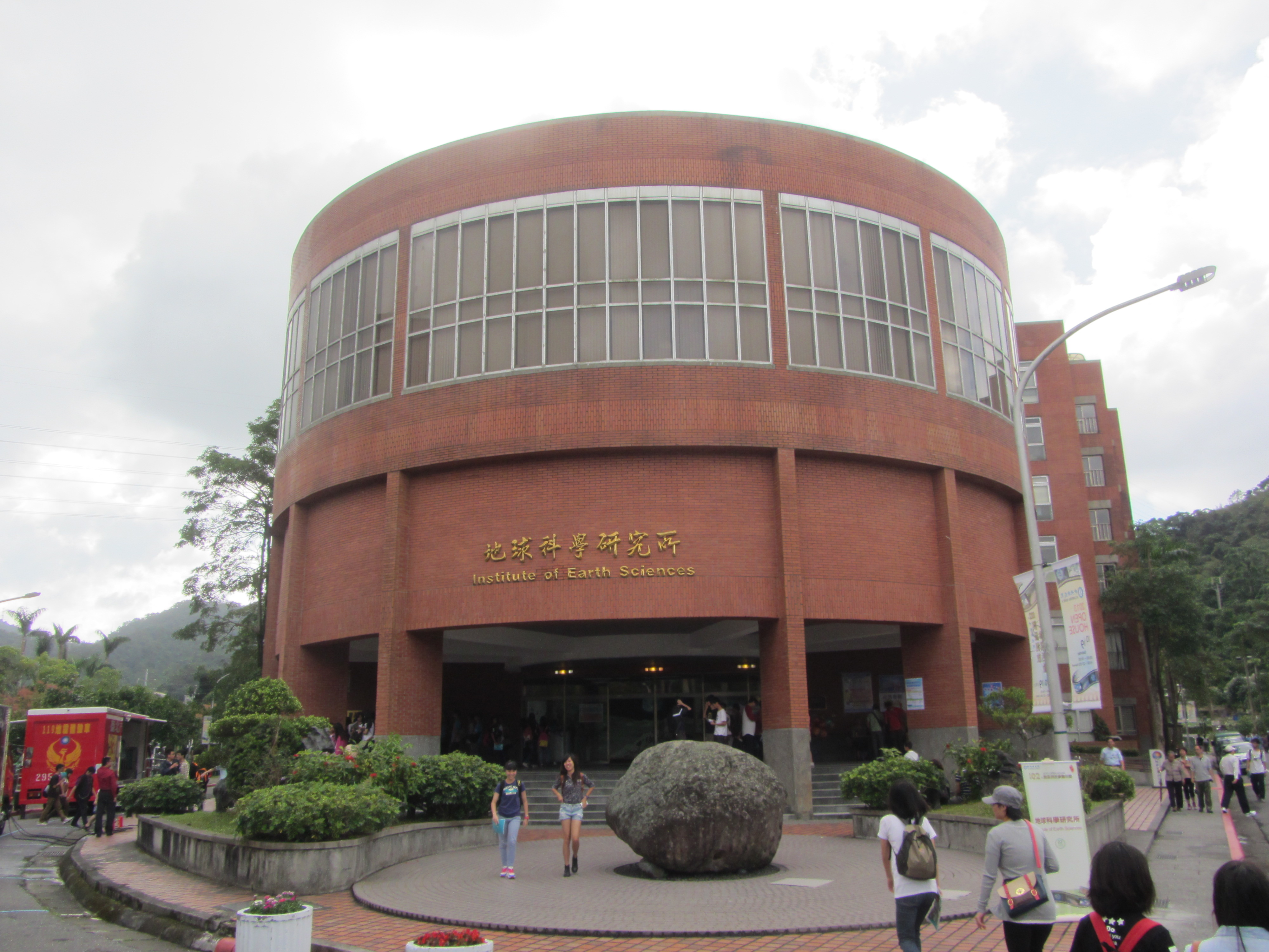 Institute of Earth Sciences, Academia Sinica